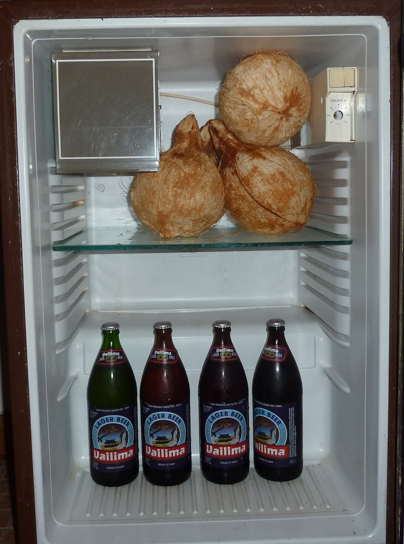 Bottles of Vailima in the fridge